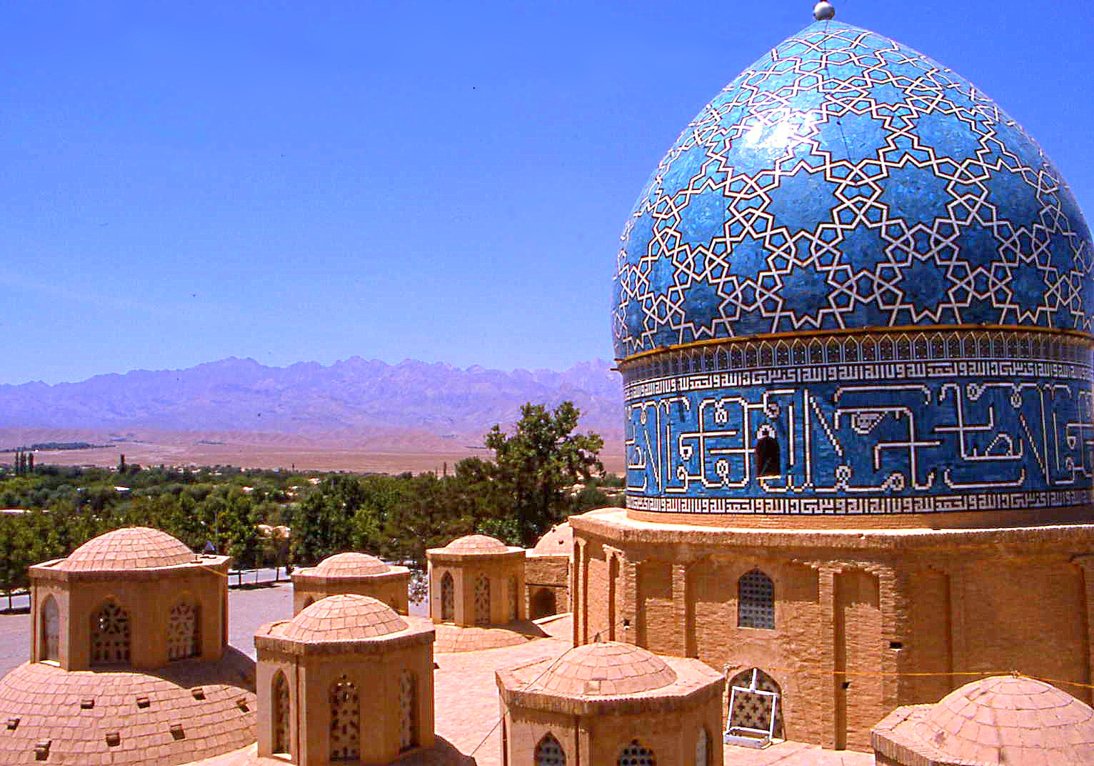 Tiled dome and cupolas of the adobe Shrine of Shah Nematollah Vali — in Mahan, Kerman province, southern Iran.